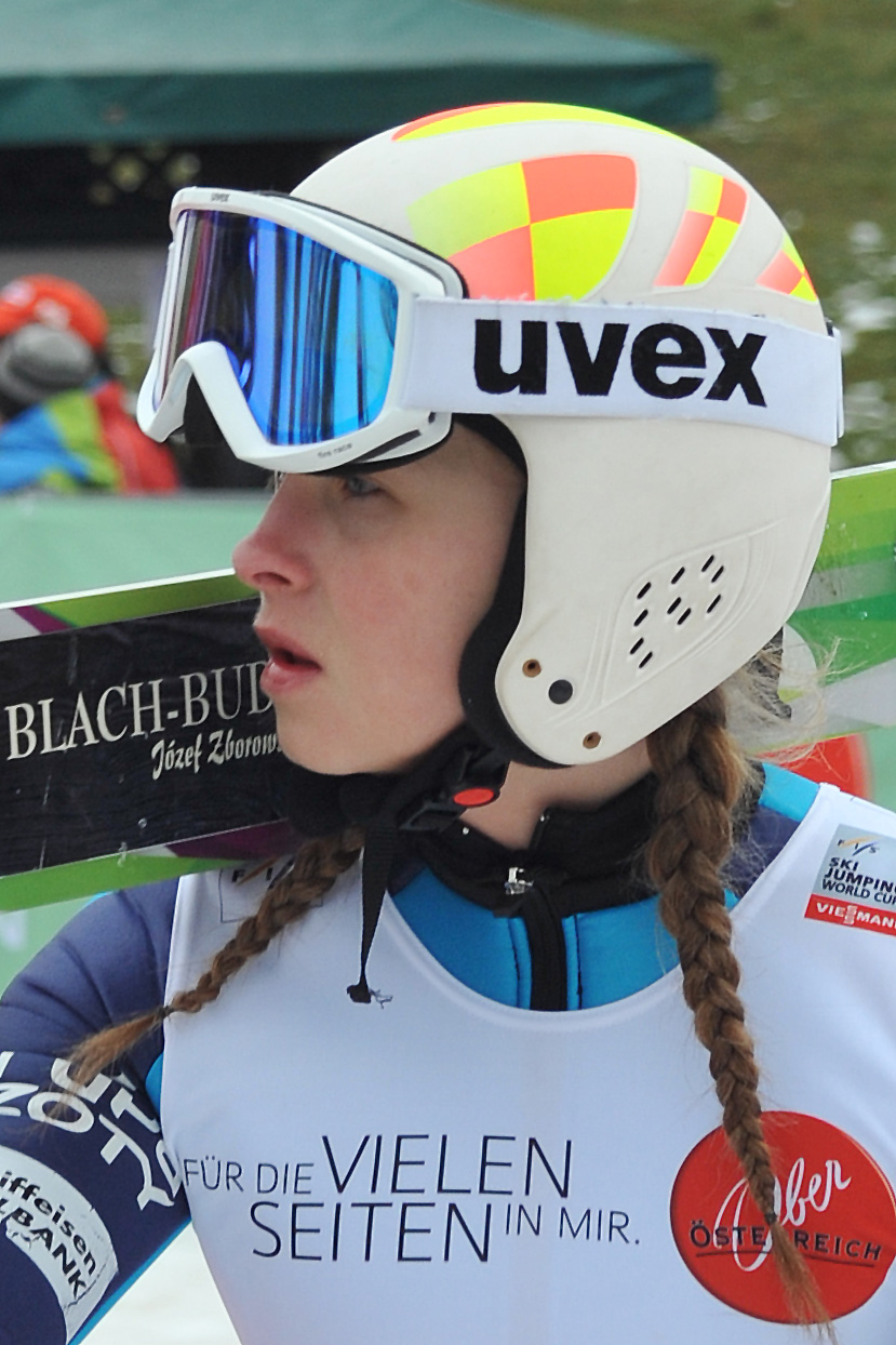 FIS Ski Jumping World Cup Ladies 14th World Cup Competition Normal Hill Individual Hinzenbach (AUT) Sun 2 Feb 2014: Joanna Szwab